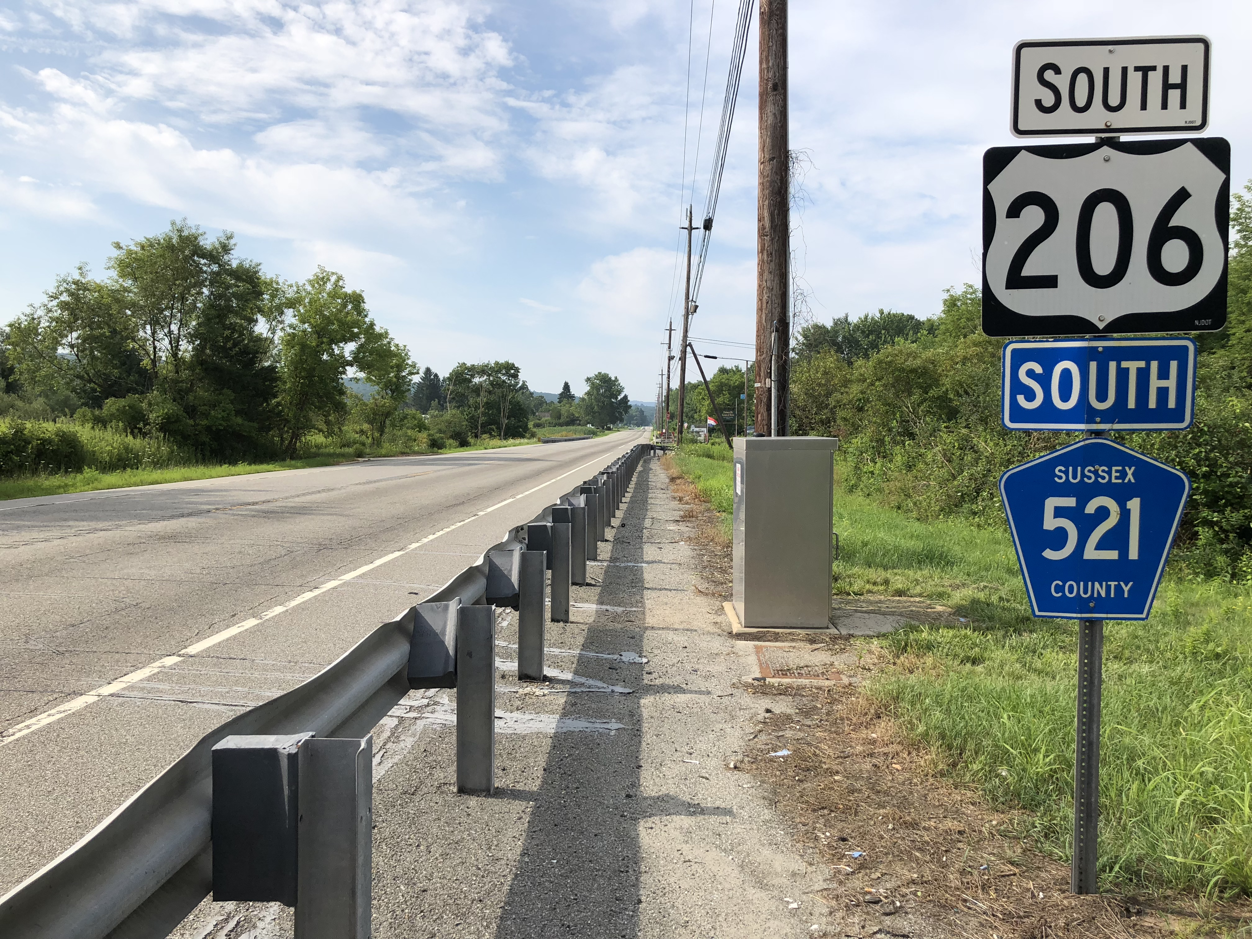 View south along U.S. Route 206 and Sussex County Route 521 between Sussex County Route 656 (Shaytown Road) and Sussex County Route 675 (Degroat Road) in Sandyston Township, Sussex County, New Jersey